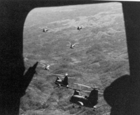 US Marine Corp CH-46s